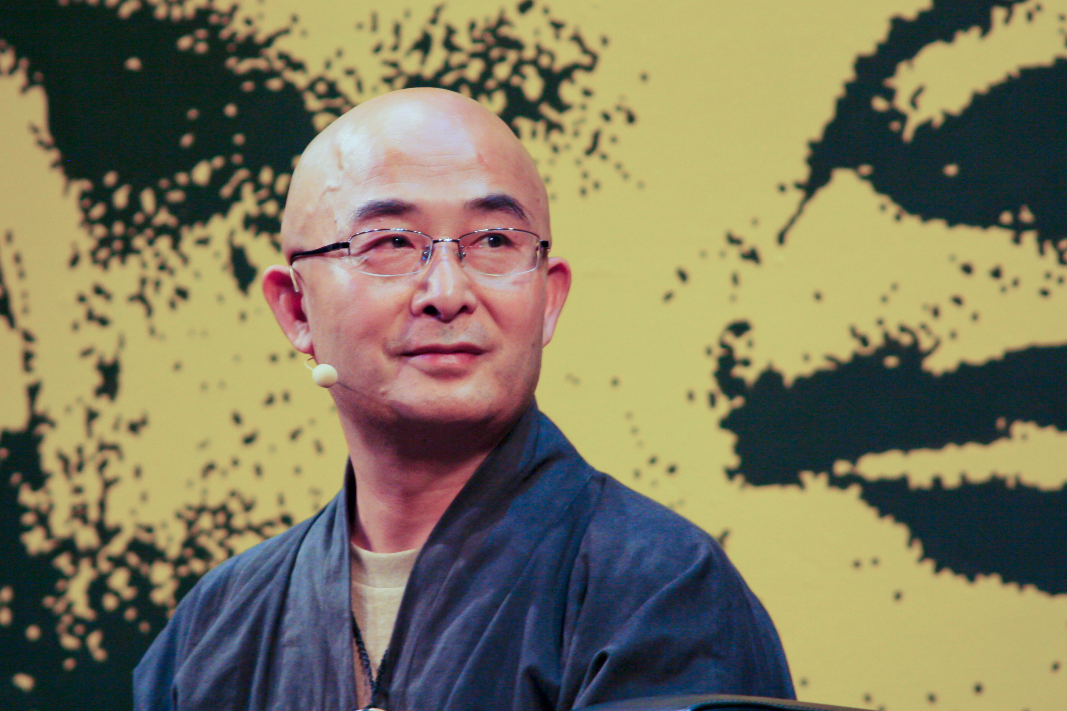 Chinese writer Liao Yiwu at the Erlangen Poetry Festival 2011.